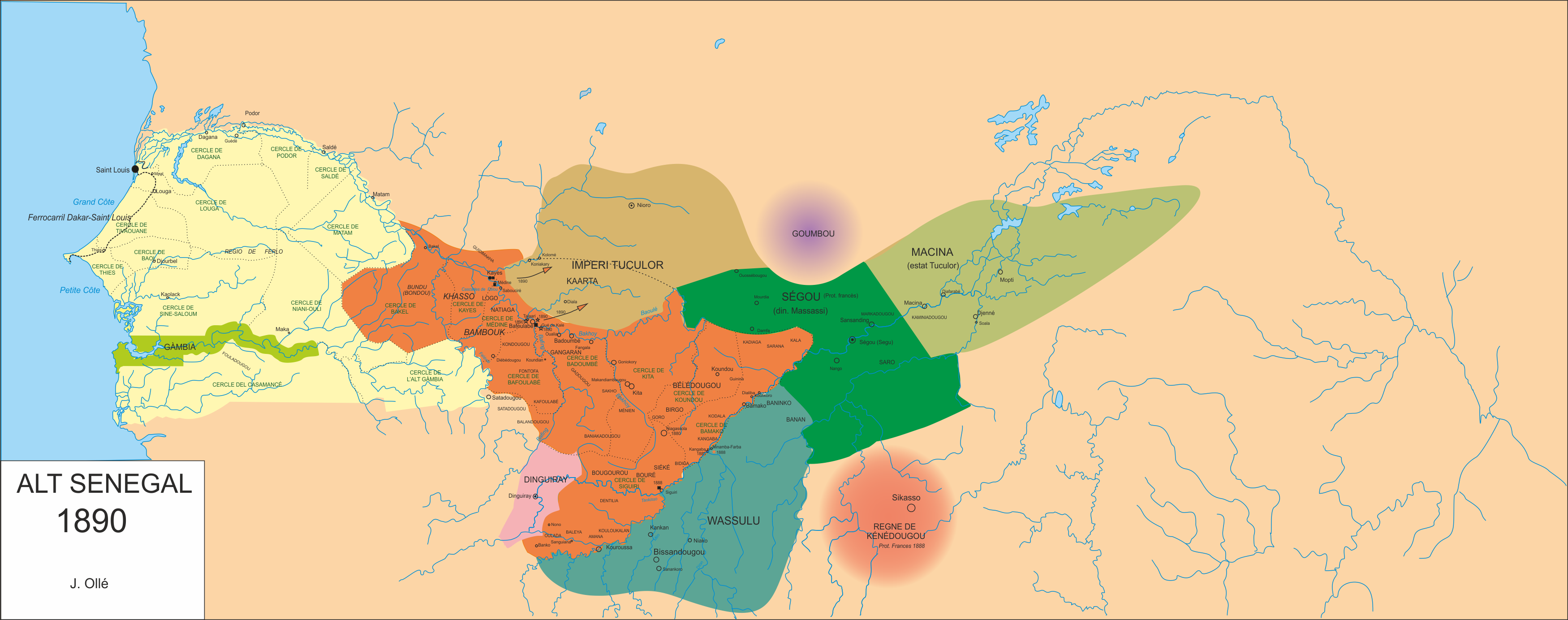 Senegal & Mali 1890, II